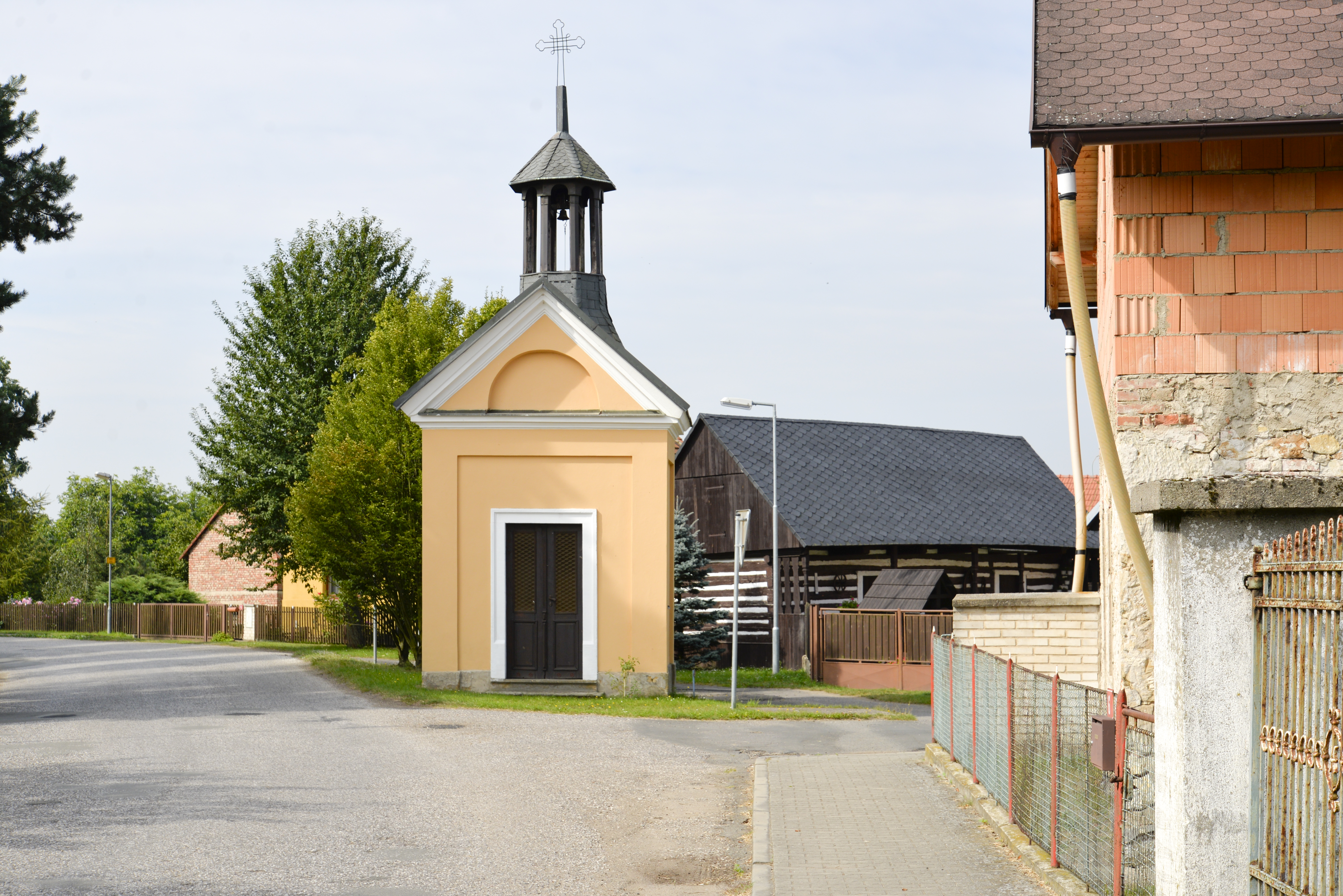 Koprník - small village, part of Kněžmost in Mladá Boleslav District, chapel